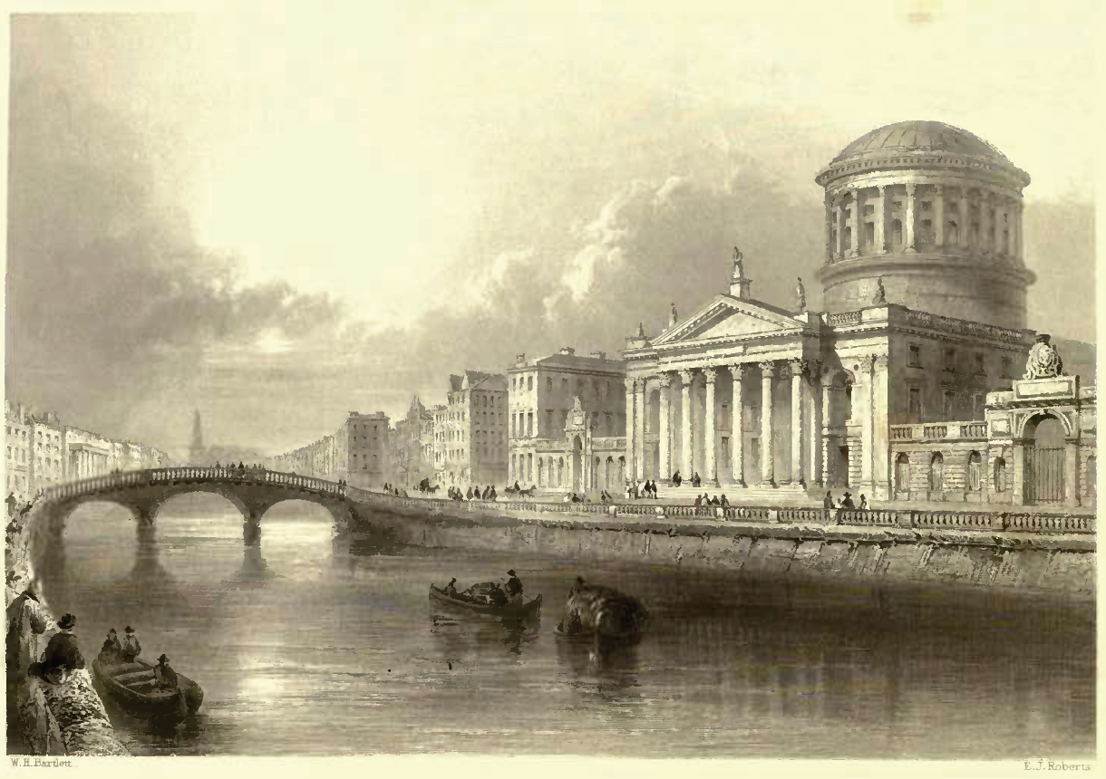 Source: Illustration from "The Scenery and Antiquities of Ireland". Folio between pages 148 and 149. Book originally published circa 1842. Text by Joseph Stirling Coyne with engravings by William Henry Bartlett. Description: Engraving showing the River Liffey and quays of Dublin, with the Four Courts and Whitworth Bridge.